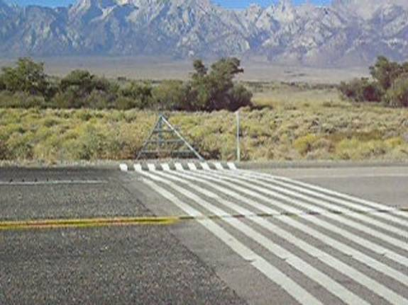 My wife and I were fascinated to see several "virtual cattle guards" near Lone Pine, California. This is our picture taken about October 4, 2006, on our way back to Nampa, Idaho, after a week vacation in southern California. Charles Palm